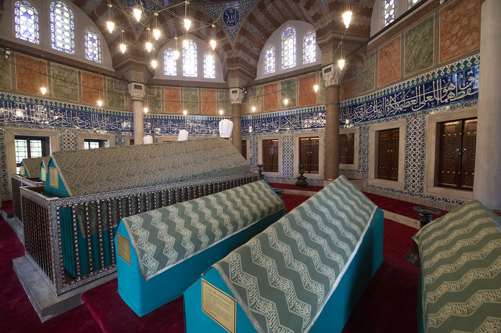 Inside the mausoleum for the founder of the mosque.